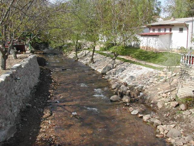 Zrnovska river